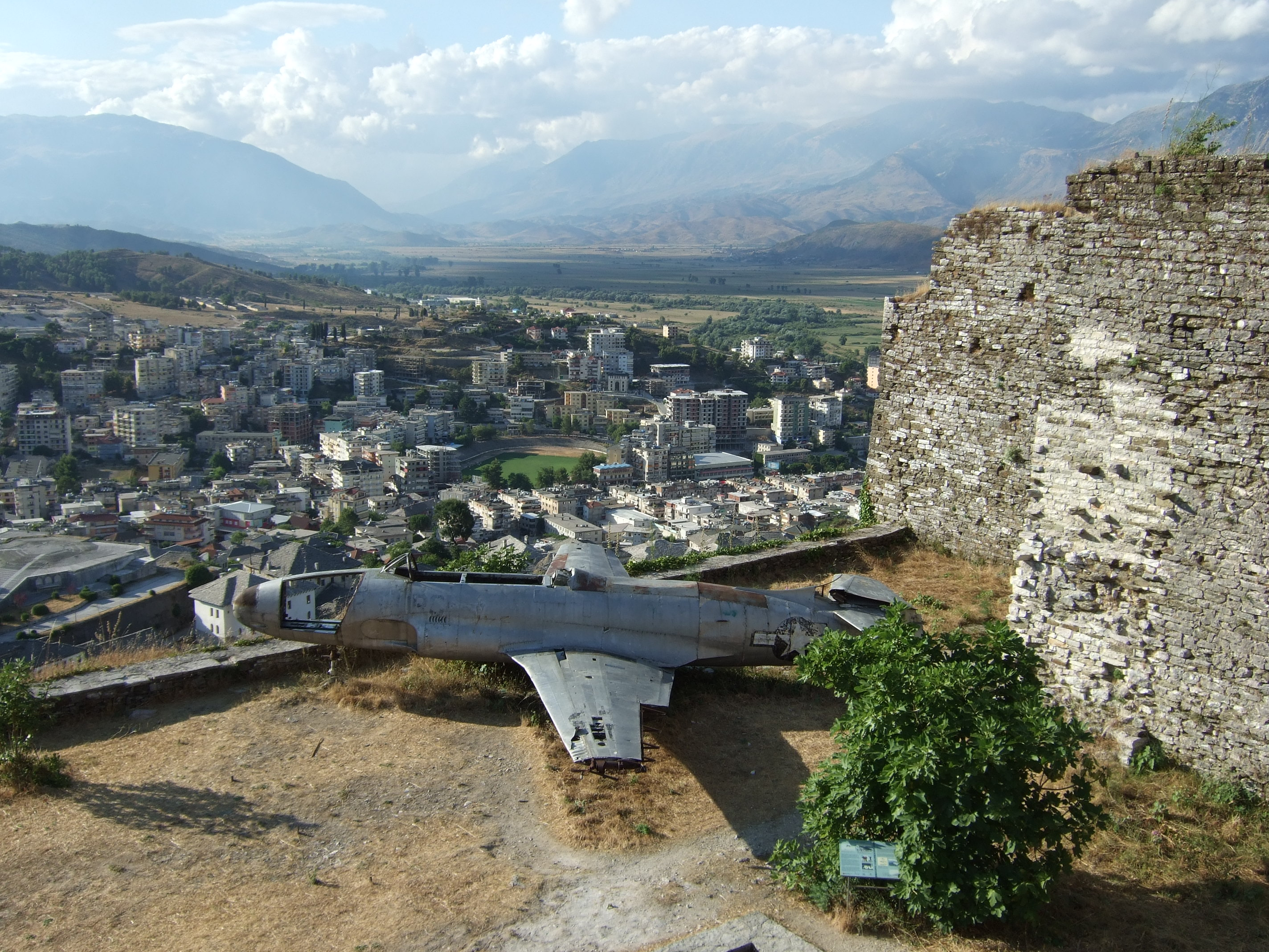 Gjirokastra - plane Lockheed T-33 "Shooting Star" at the castle. Behind the town and Kendrevica and Lunxhëria mountains.